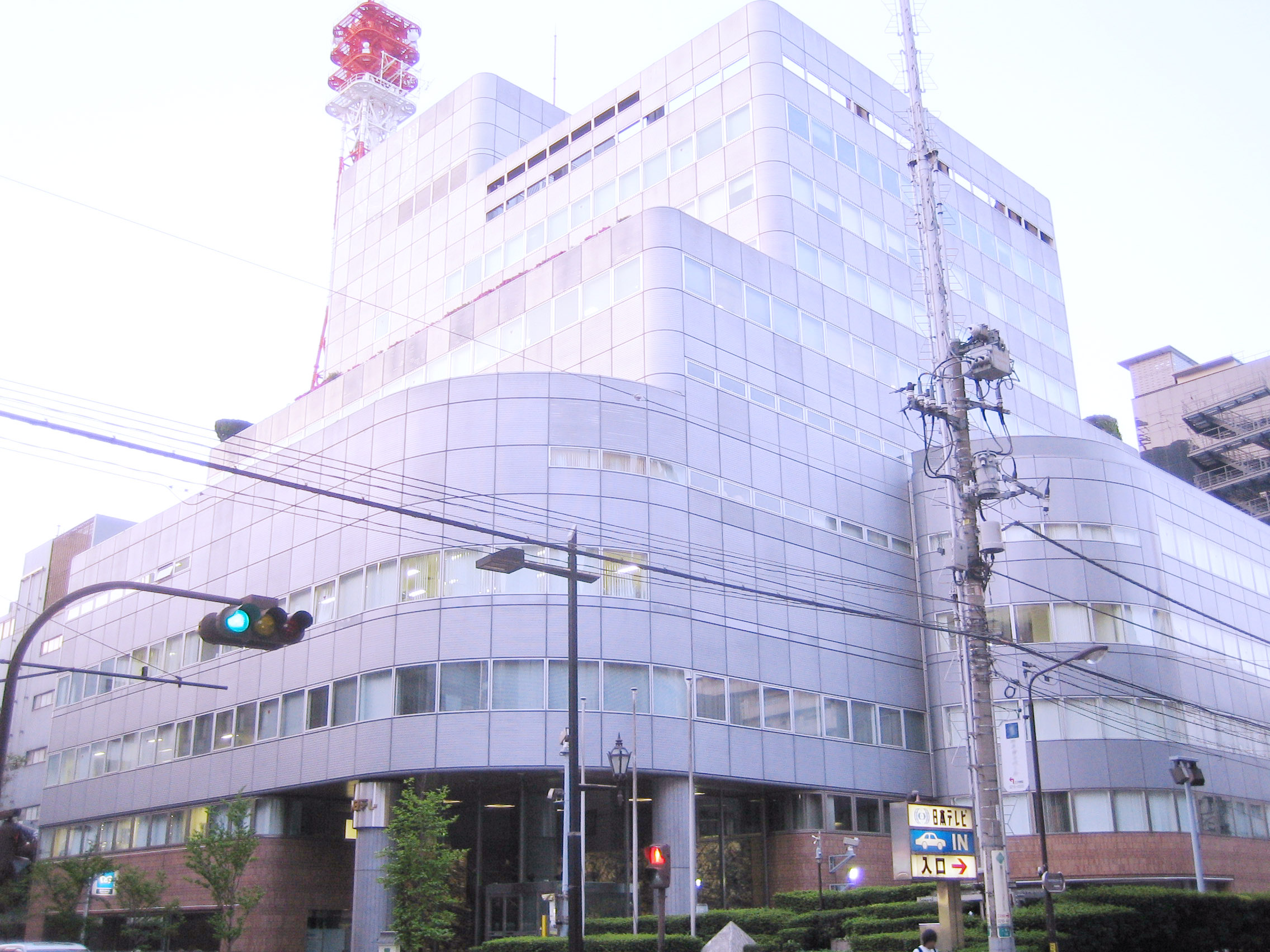 The former head office of the Nippon Television Network Corporation (日本テレビ放送網 Nihon Terebi Hōsōmō), in Chiyoda, Tokyo, Japan